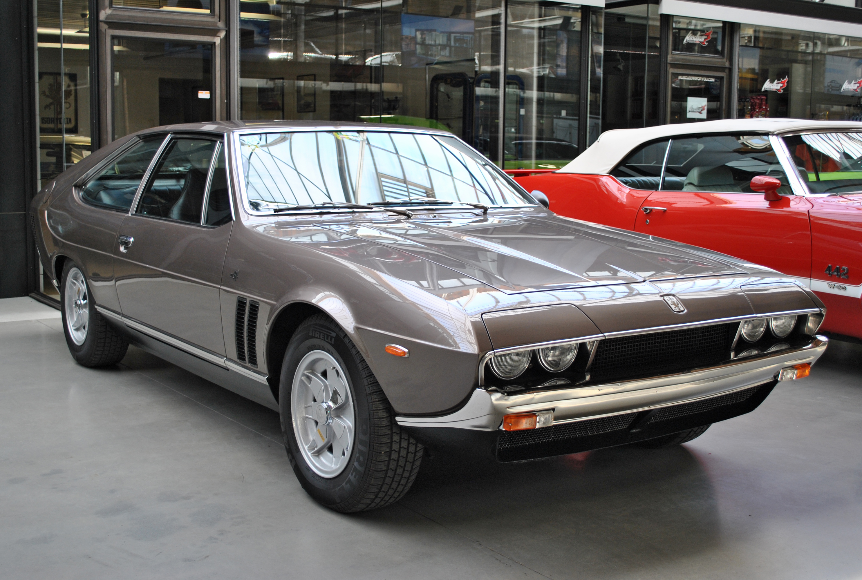 Iso Rivolta Lele at Classic Remise Berlin